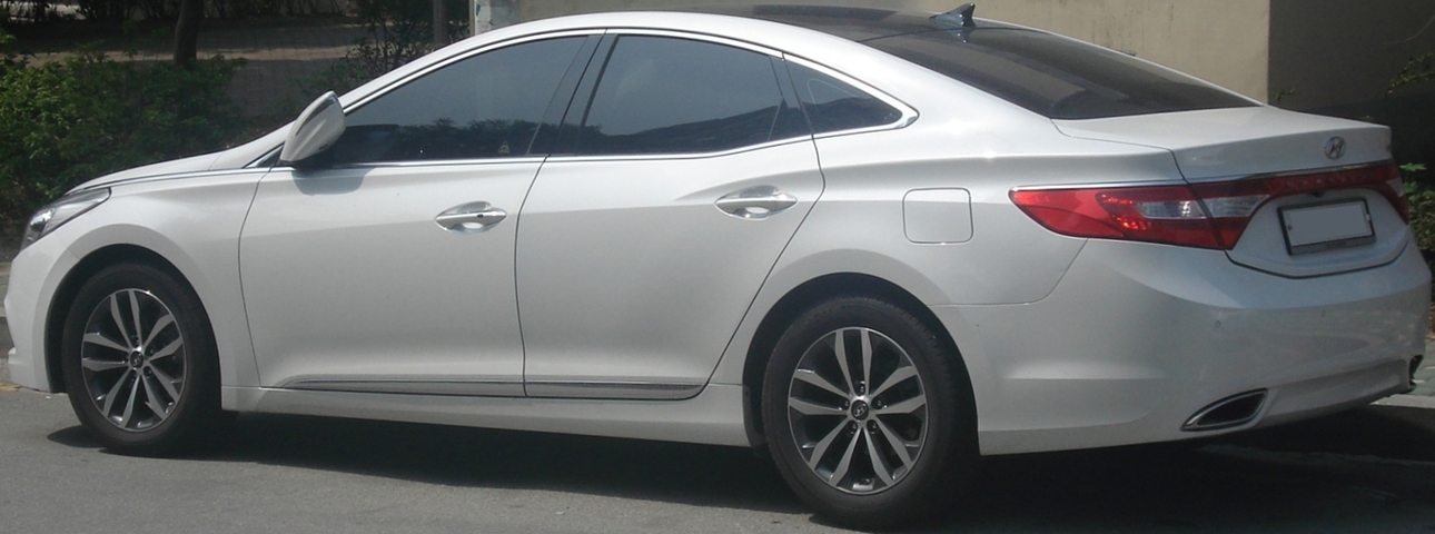 Hyundai 5G Grandeur